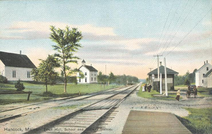 Town hall, school and railway station, Hancock, Maine